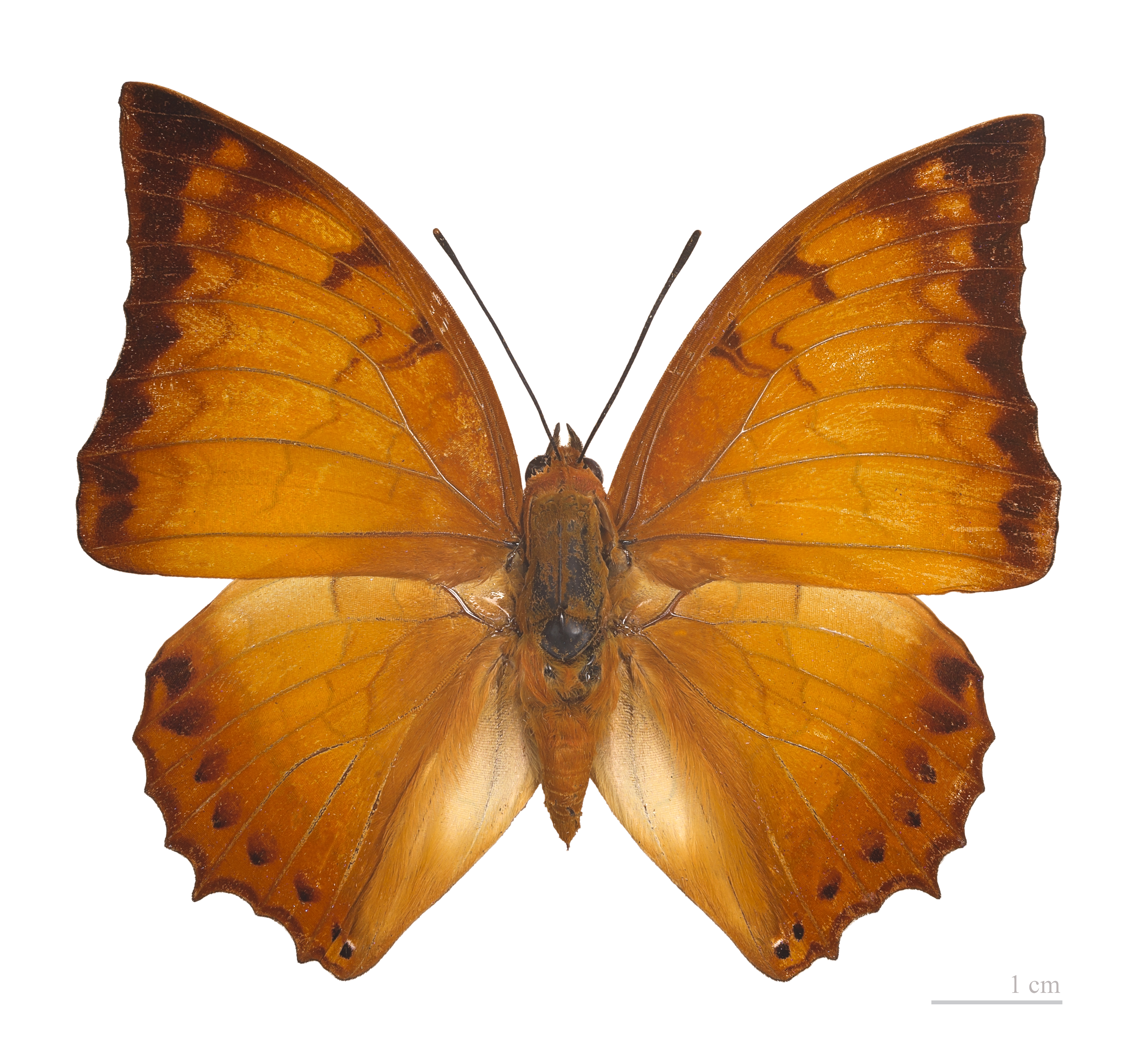 ♂ - Dorsal side Locality: Cameron Highlands, Malaysia